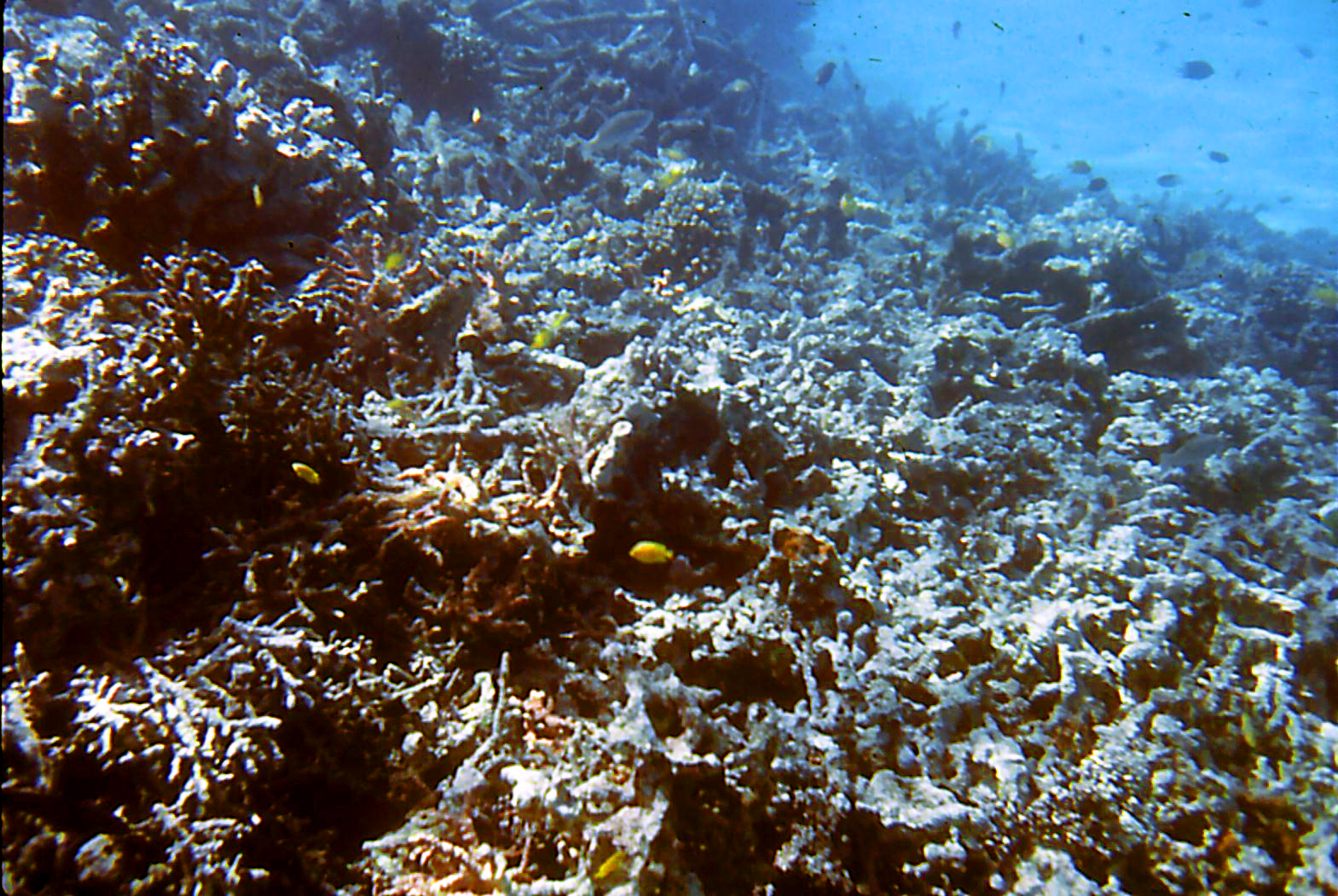 After Crown-of-thorns predation and storm